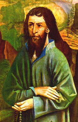 Nicholas of Flue, Roman Catholic Saint, from an altar piece formerly in the parish church of Sachseln, today in the Museum 'Bruder Klaus'.